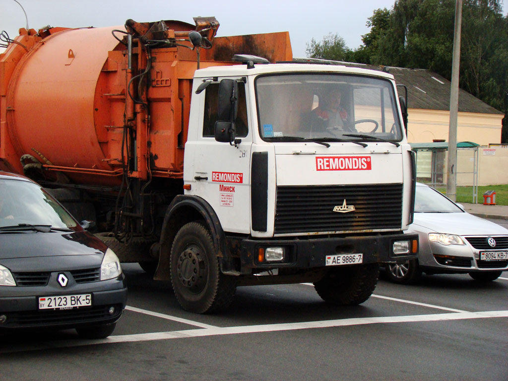 Remondis garbage truck in Minsk, Belarus